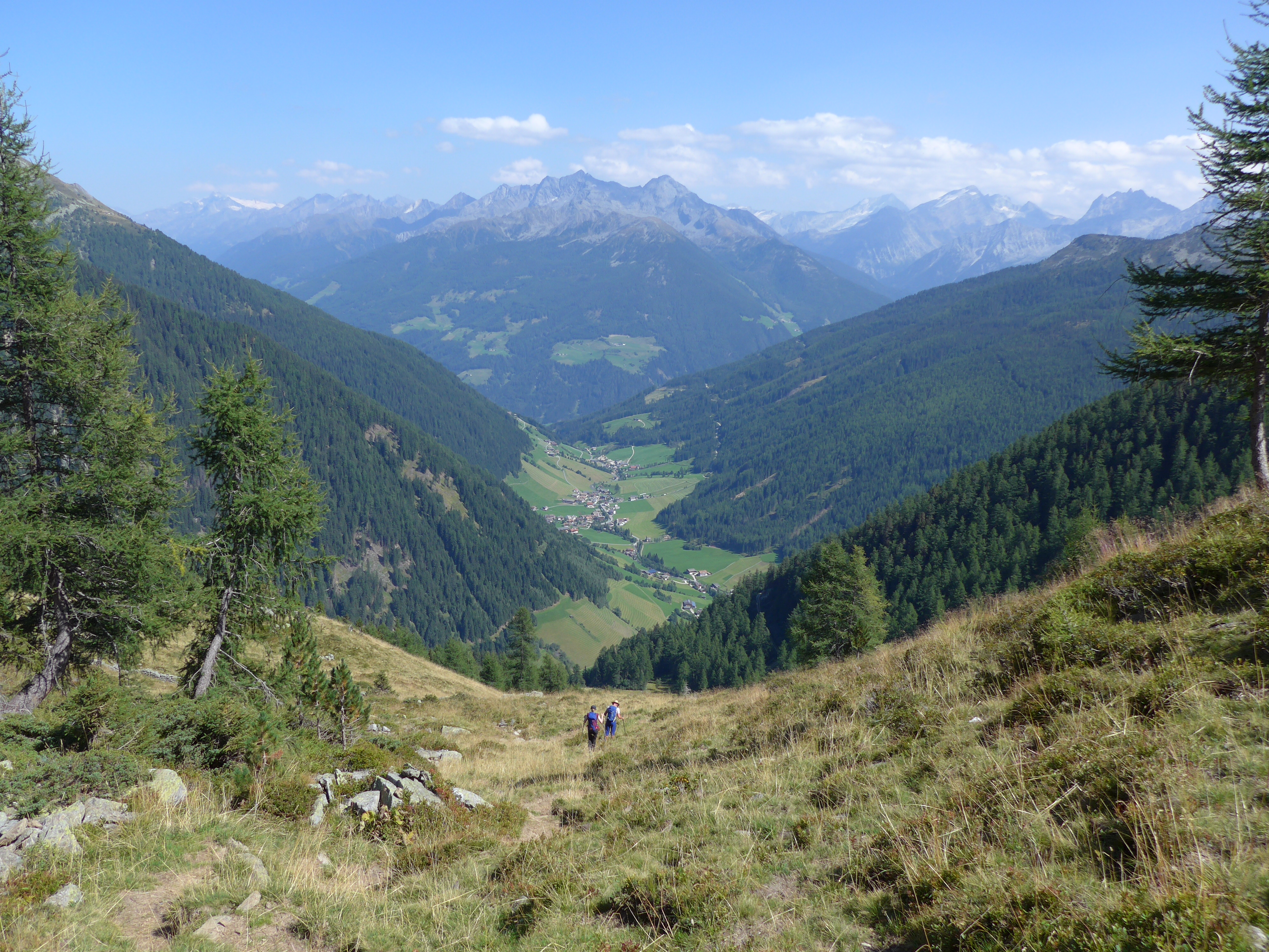 Weißenbachtal from west, while descending in Tristental